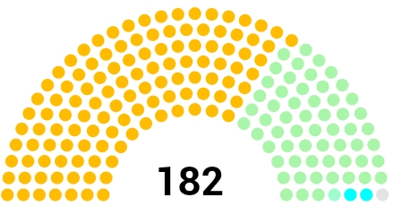 Gujarat Legislative Assembly in 2014. ['BJP', 115, '#ffbc00'] ['INC', 55, '#A9F5A9'] ['NCP', 2, '#00FFFF'] ['JD(U)', 1, '#a0fccc'] ['Vacant', 9, '#3b9fb5'] Election diagram created using